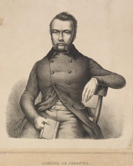 Armand de Perceval